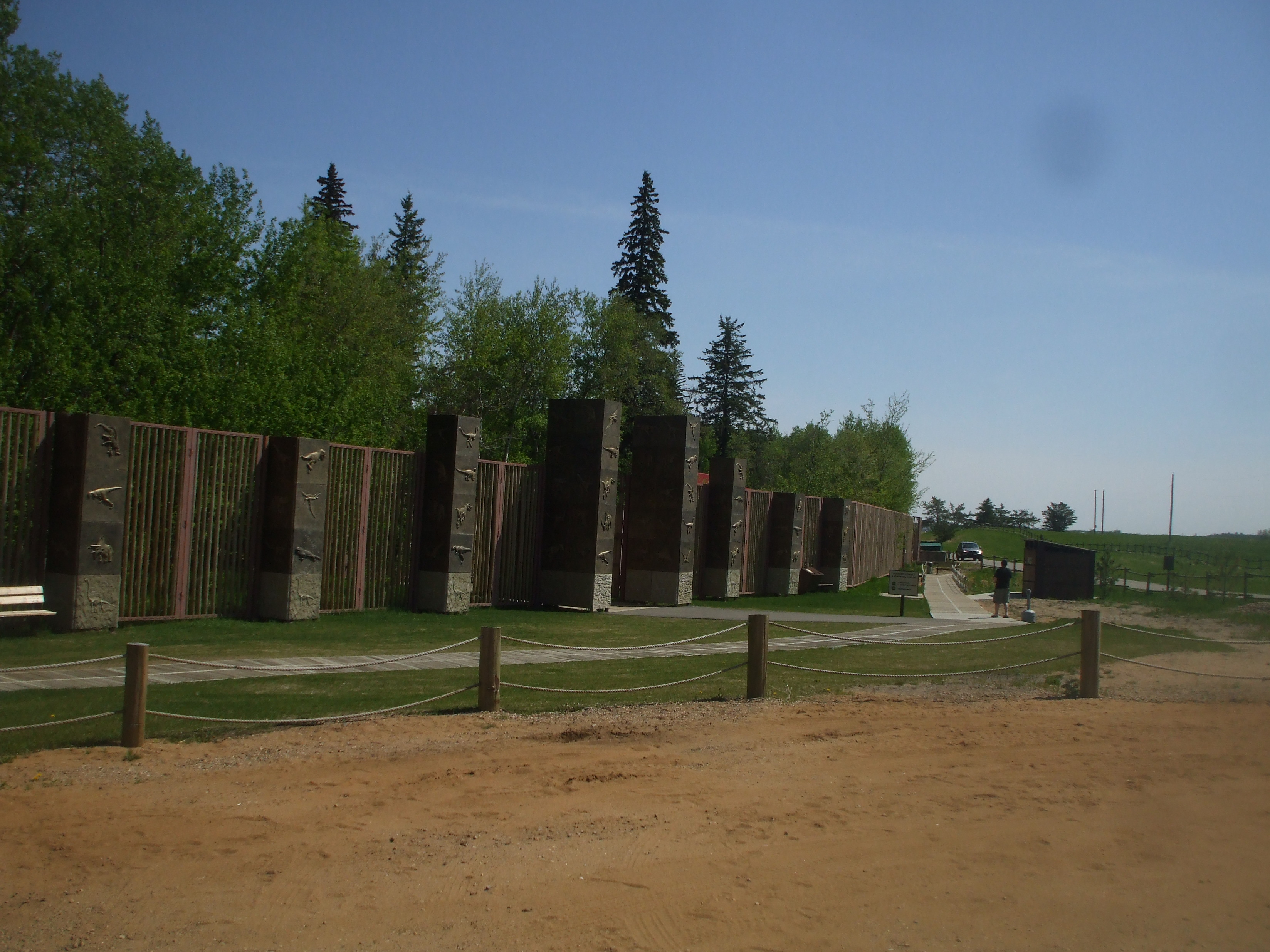 The entrance to the Jurrassic forest.